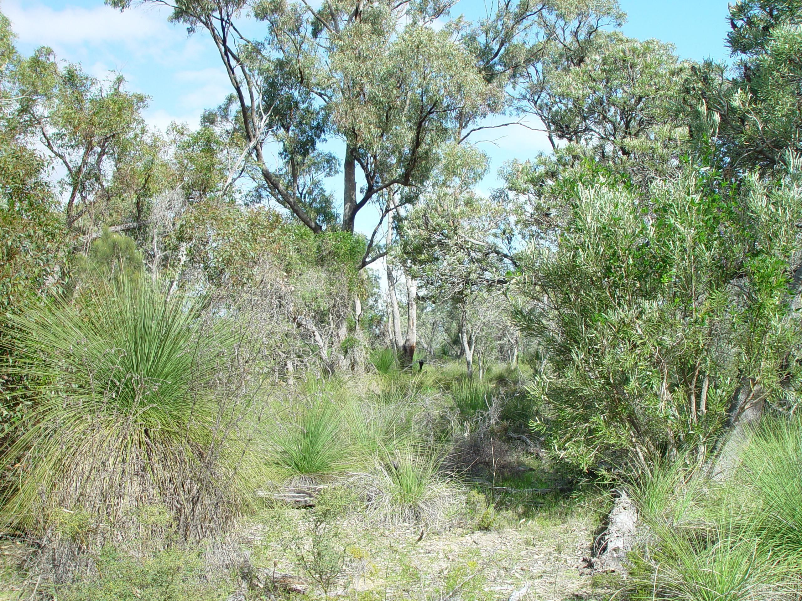 Image title: Bushland Tamala park Image from Public domain images website